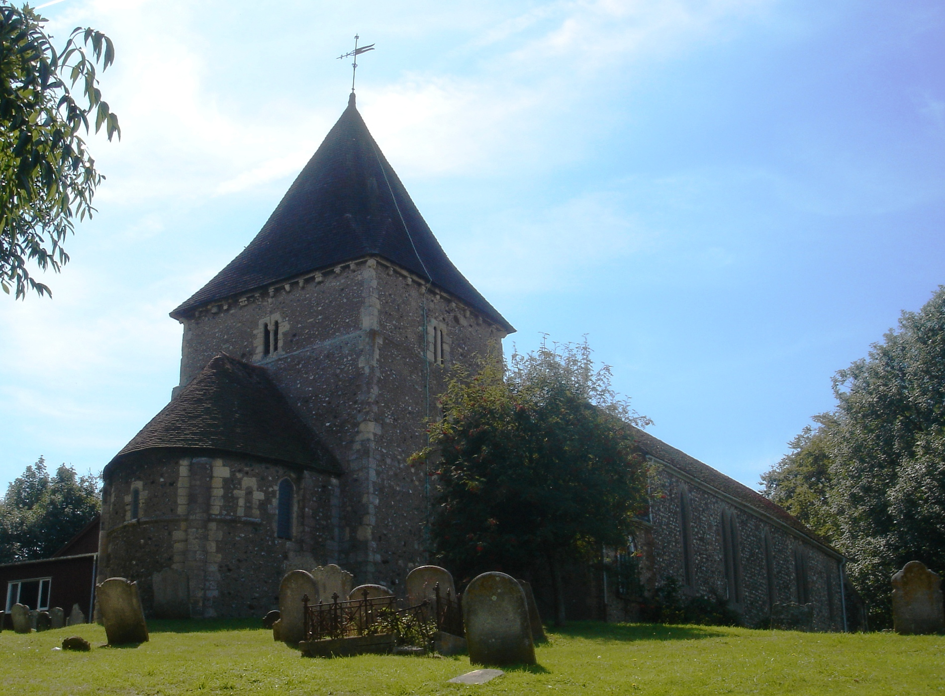 St Michael and All Angels Church, Church Hill, Newhaven, District of Lewes, East Sussex, England. Newhaven's parish church has Norman origins, although it was restored in the Victorian era. Listed by English Heritage at Grade II* (IoE Code 374196)